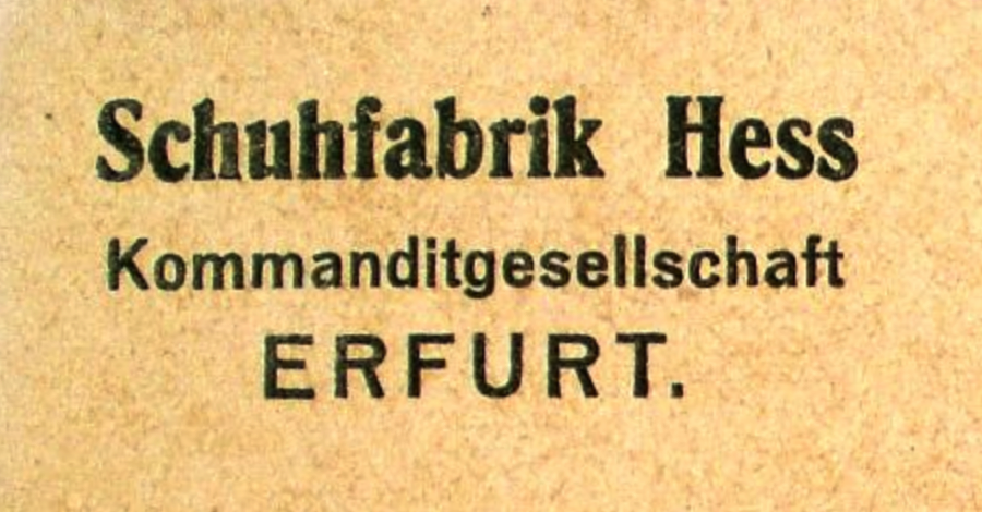 Printed return address on an envelope of shoe manufacturer M. u. L. Hess of Erfurt, Thuringia, Germany, sent in 1924